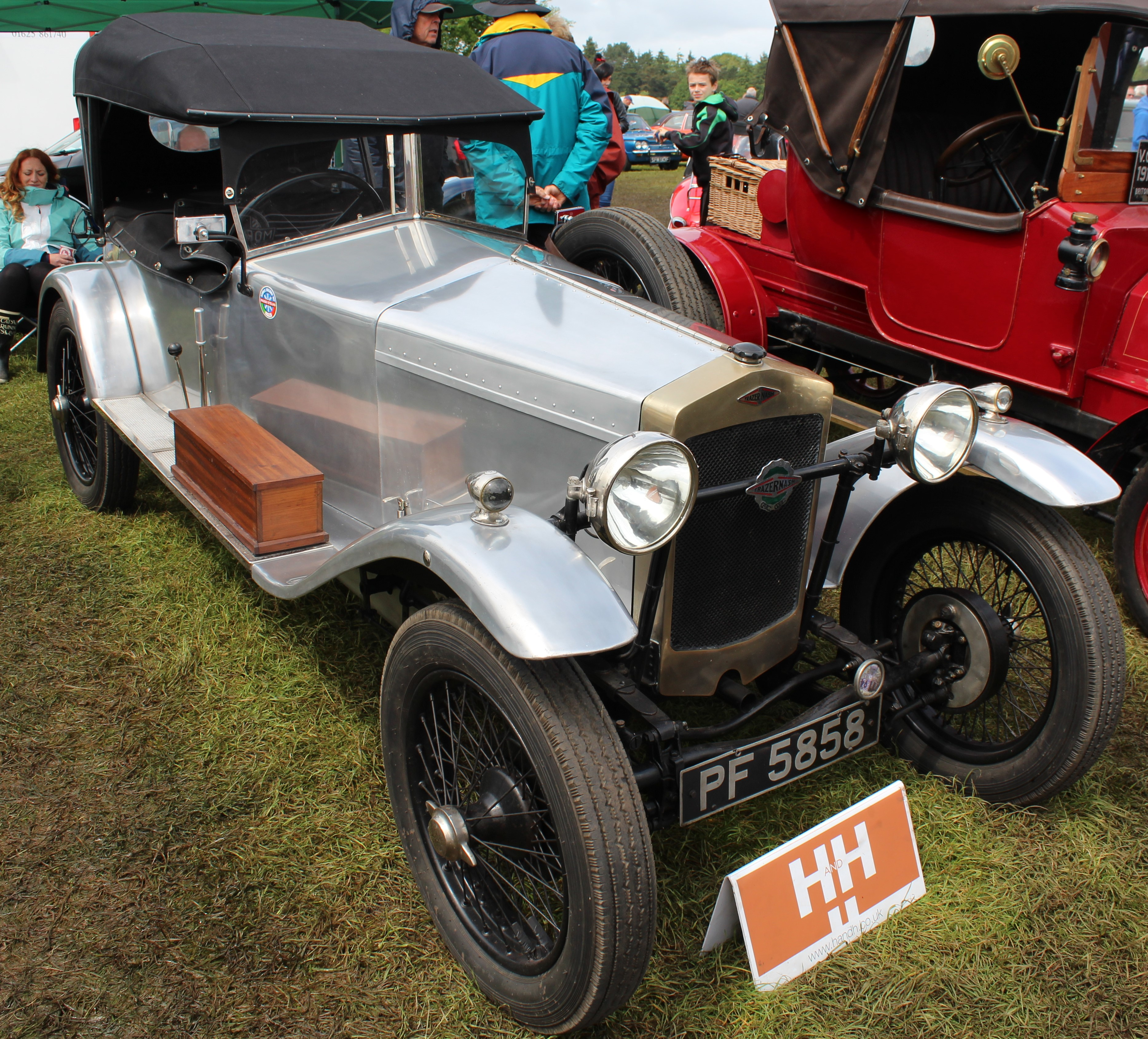 1926 Frazer Nash fast tourer Reg Number:PF 5858 Chassis Number:4520 Engine Number:EOTTA144214 Cc:1496 Body Colour: Polished Aluminium Trim Colour See more at